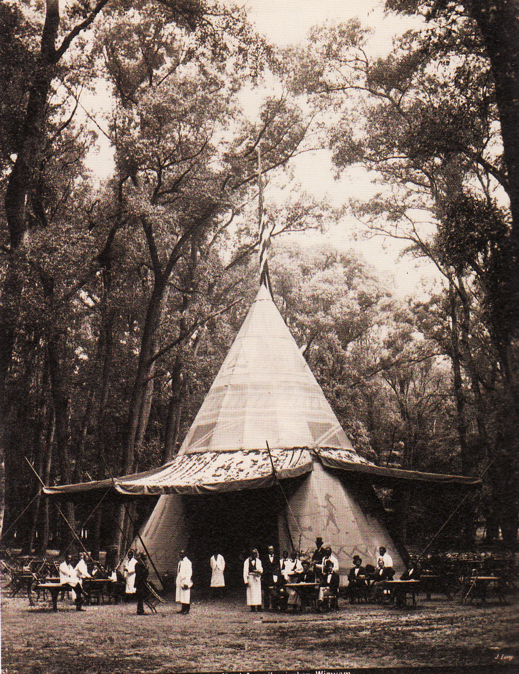 Northamerican wigwam Expo 1873